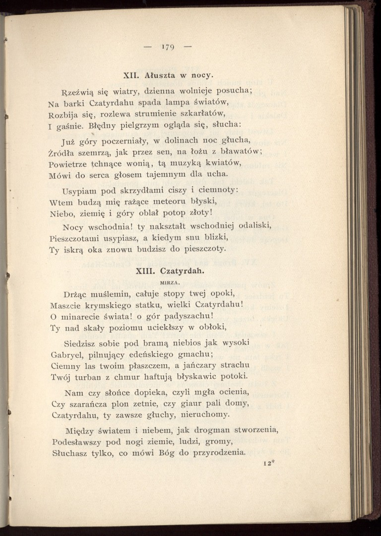 Poems by Adam Mickiewicz. V. 1. - Kraków; 1899; Adam Mickiewicz (1798-1855)